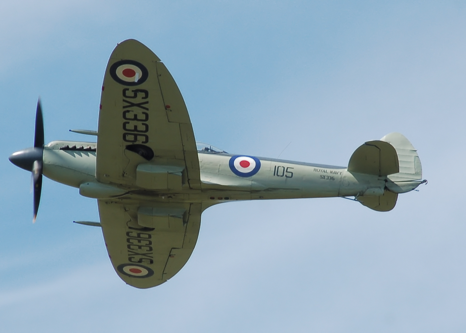 Royal Navy Supermarine Seafire SX336, model F.XVII, civil registration G-KASX, displays at the Cotswold Air Show at Cotswold Airport, Kemble, Gloucestershire, England.